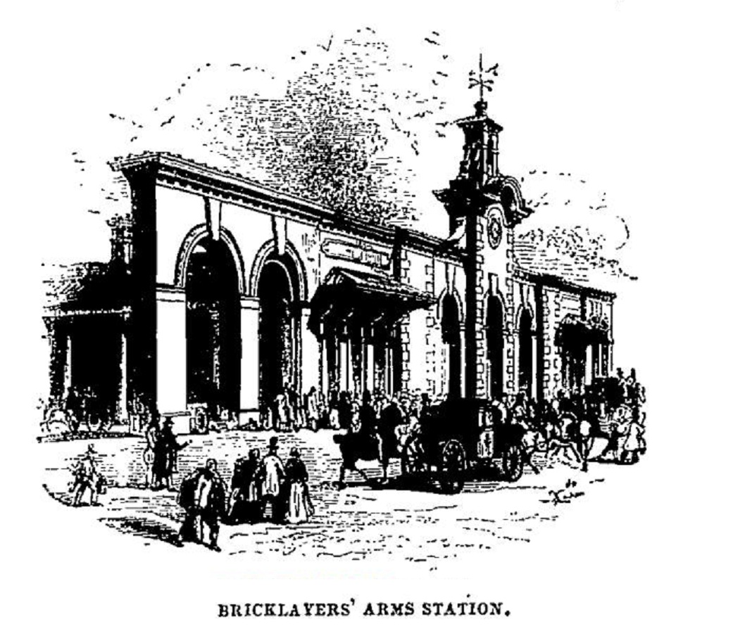 Cubitt's facade at Bricklayers' Arms station